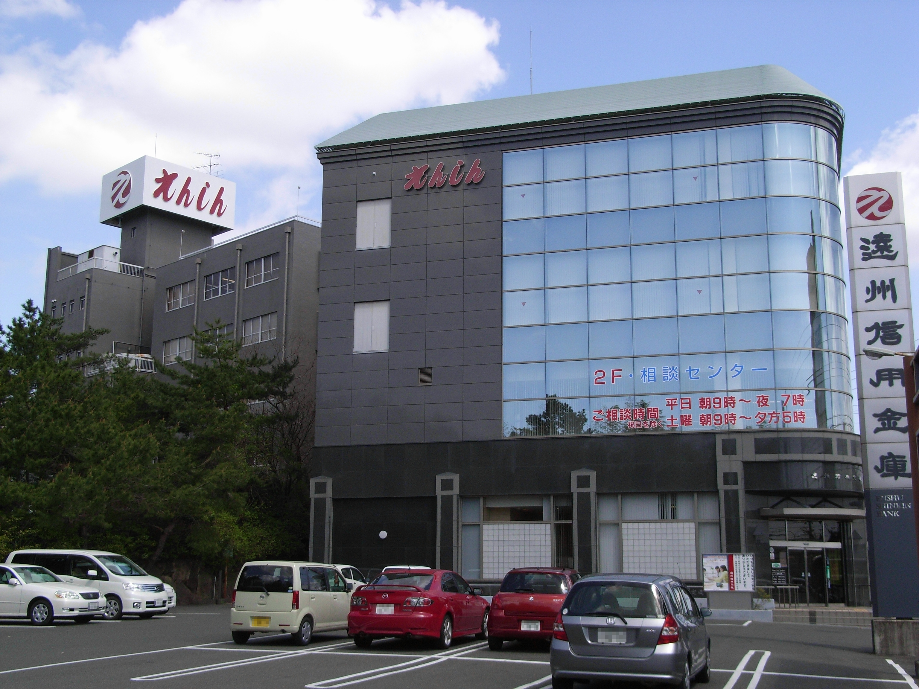 Enshu Shinkin Bank